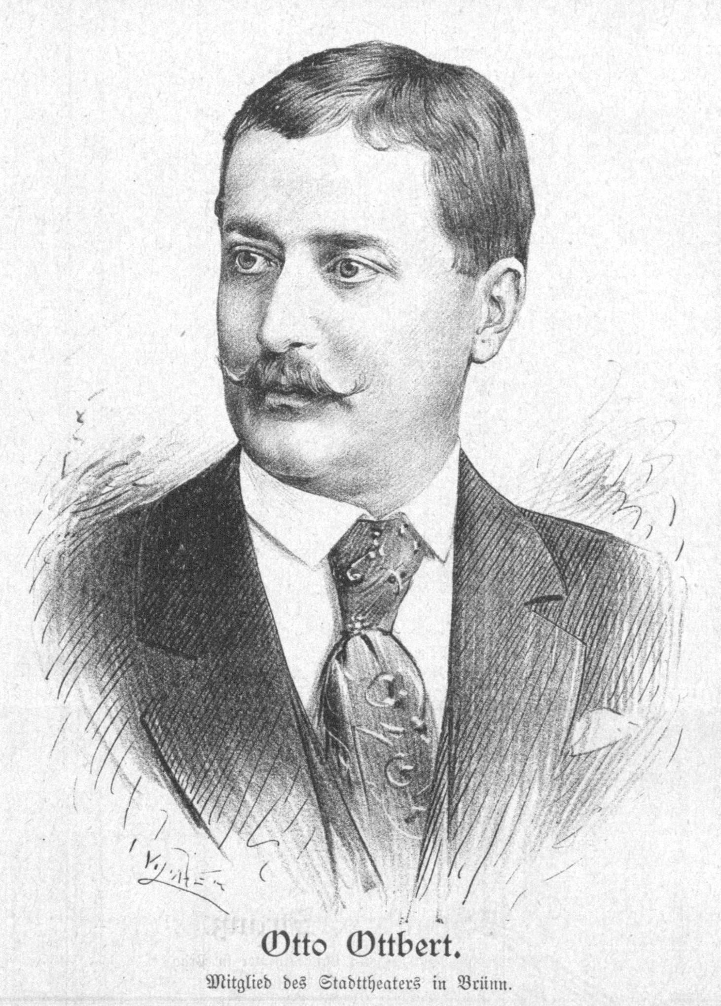 Portrait of Otto Ottbert (1852-1933), German actor.